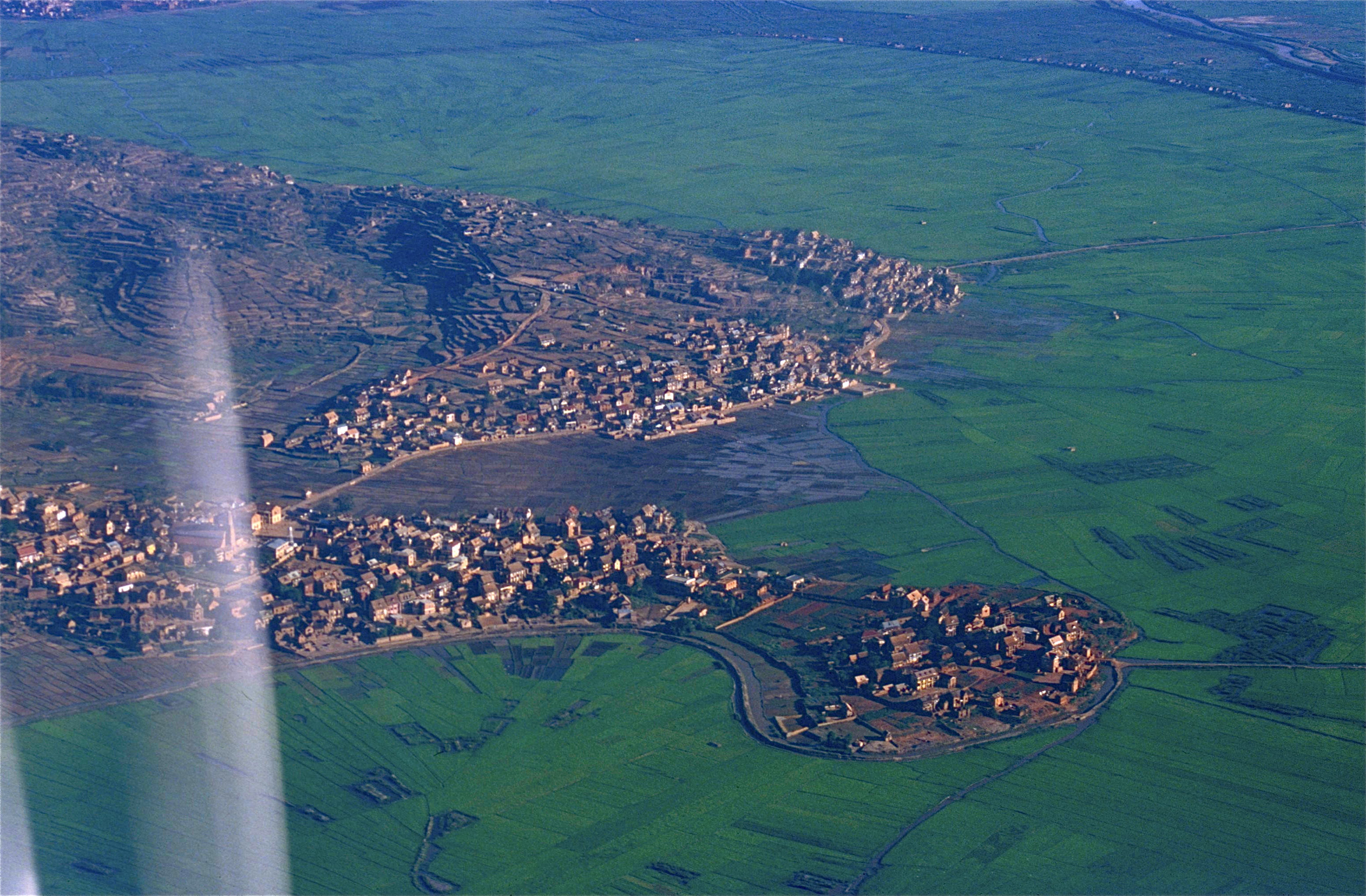 Flight to Antananarivo, MADAGASCAR Scanned Slide from 1998